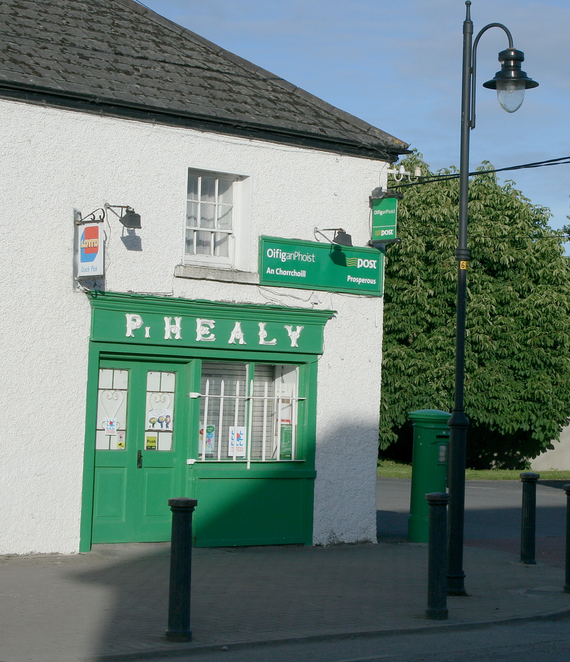 Prosperous Post Office in the new An Post branding.